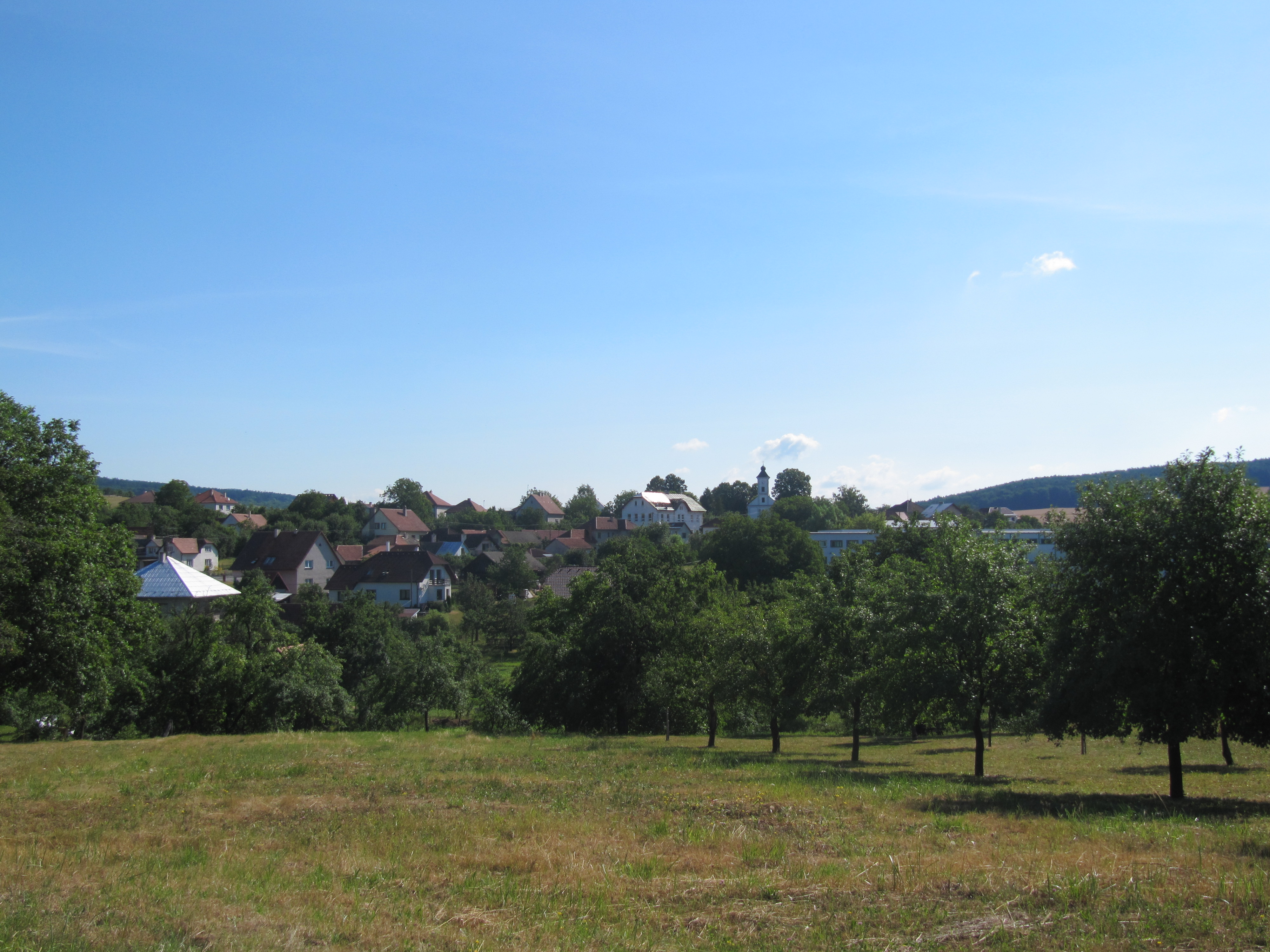 Slopné, Zlín District, Czech Republic.